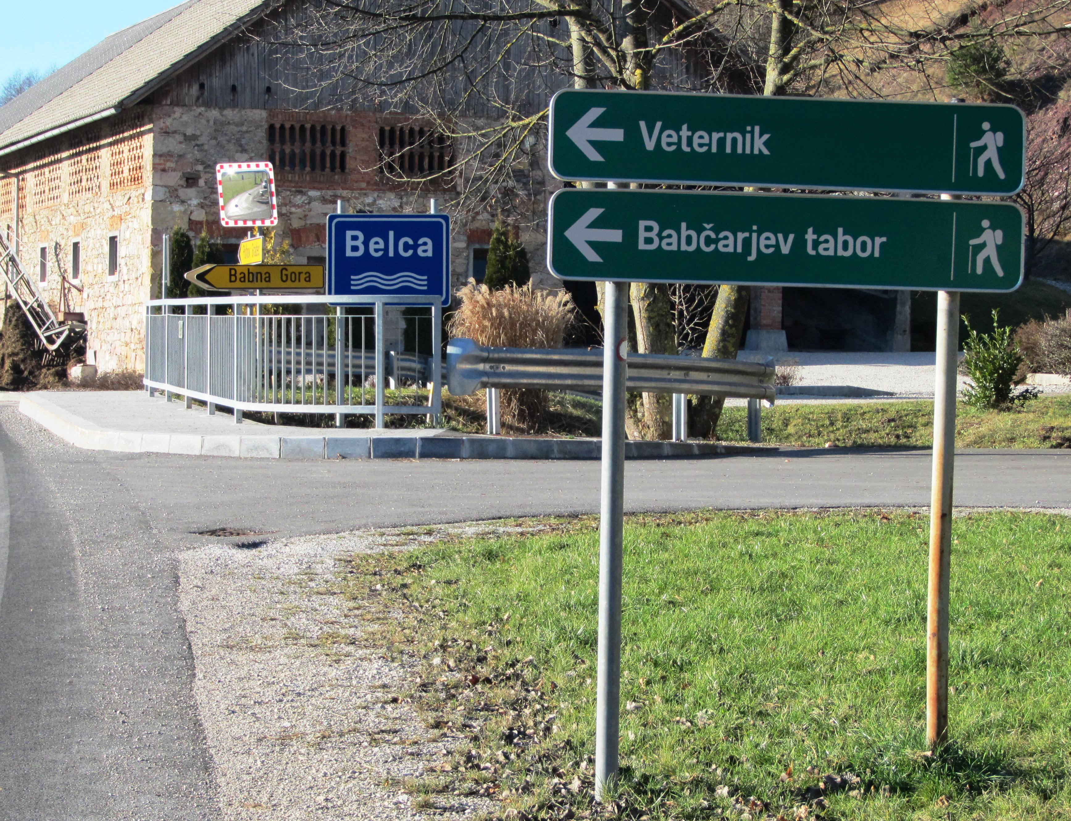 Signs for local destinations in the village of Babna Gora, Municipality of Dobrova–Polhov Gradec, Slovenia